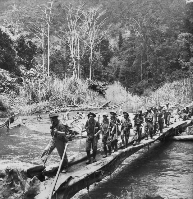 Australian soldiers from the 2/25th and 2/33rd Infantry Battalions cross the Brown River during the fighting in New Guinea in 1942